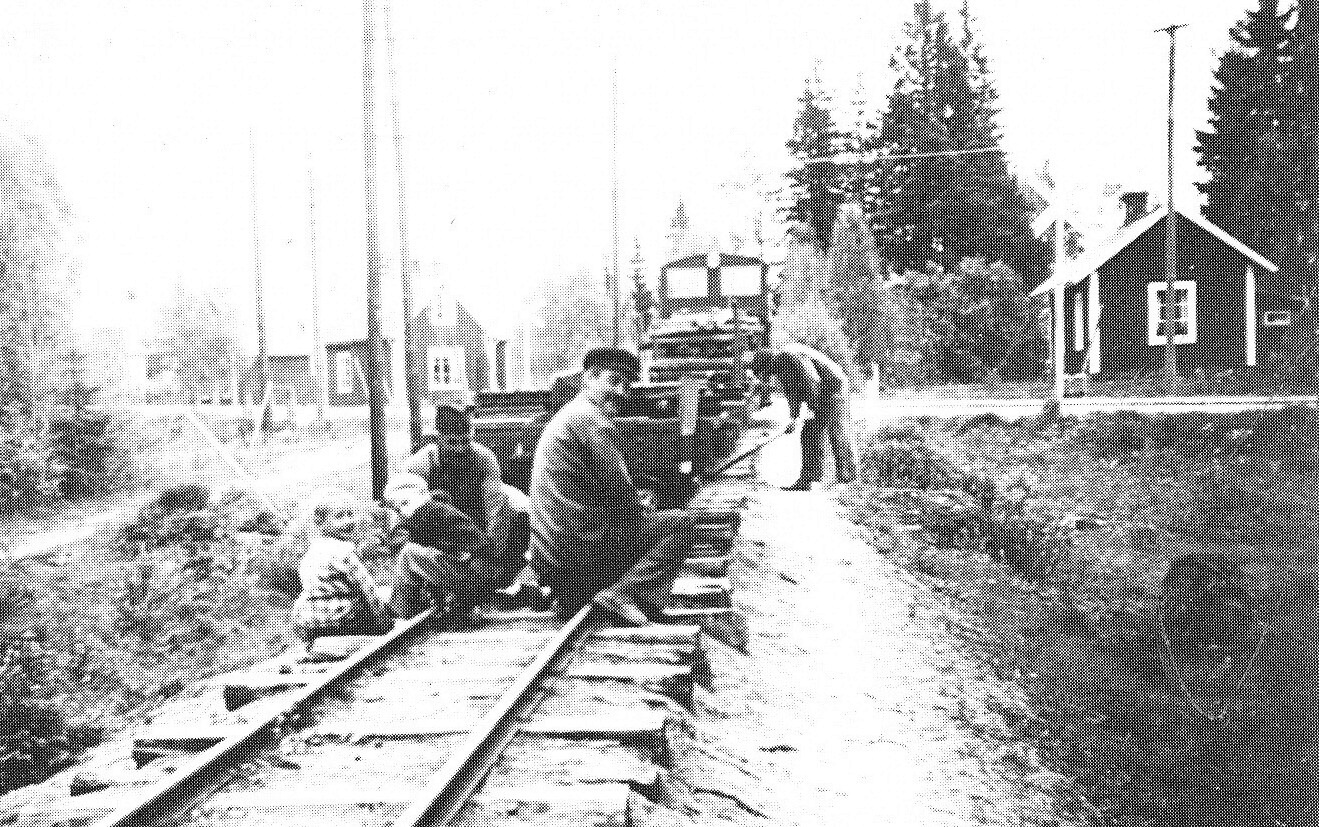 The track is lifted, east of the level crossing in Lessebo in Sweden (Kosta-Lessebo Järnväg).